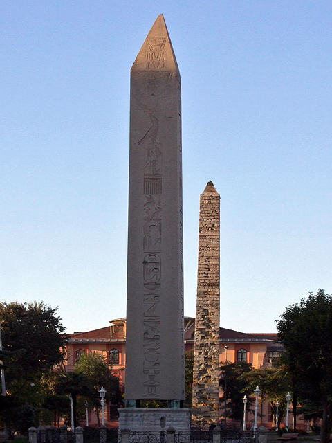 Istanbul hippodrome